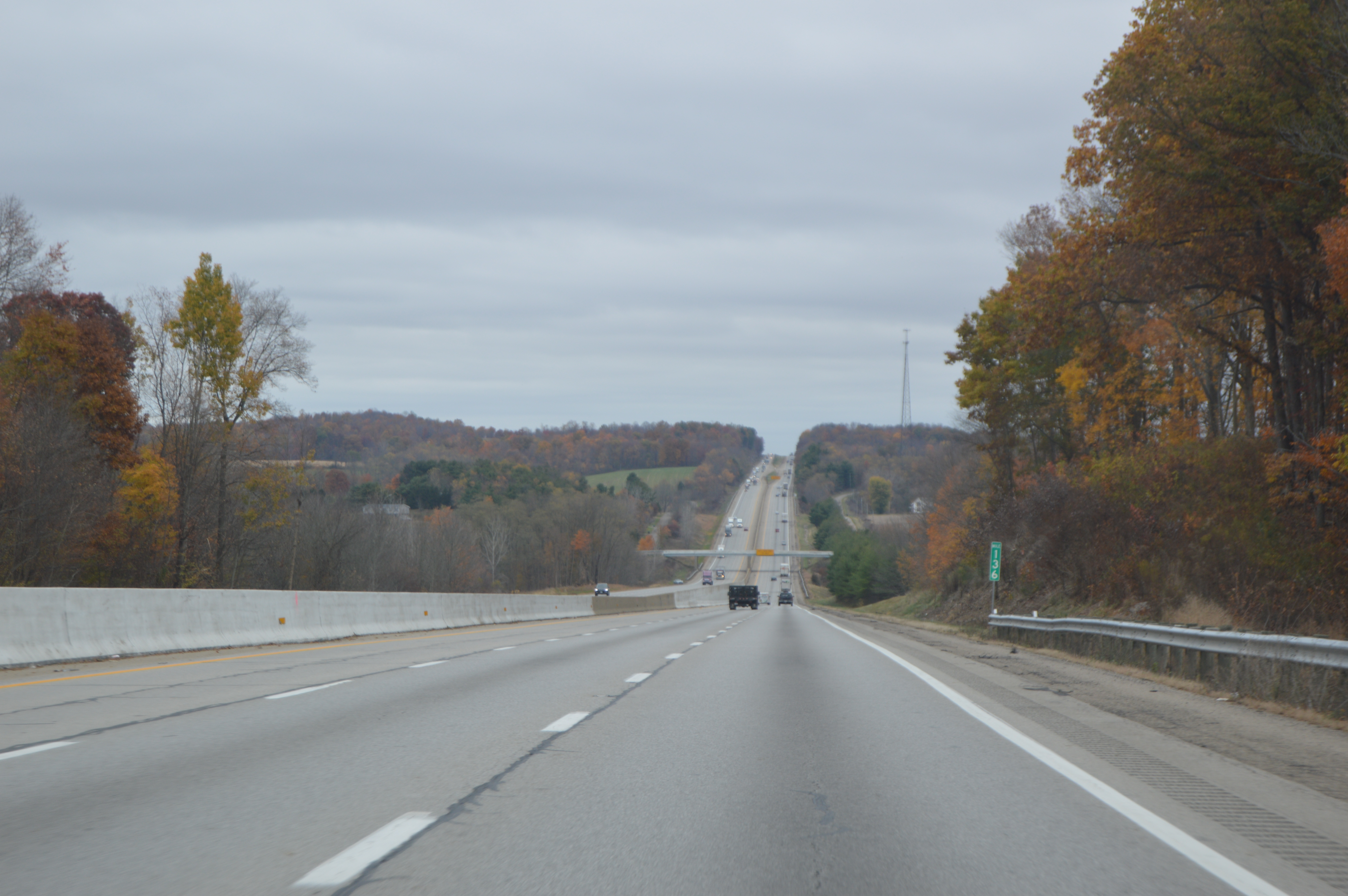 Looking eastward on Interstate 70 between the Shelley Road and Honda Hills Road overpasses in Bowling Green Township, Licking County, Ohio, United States.